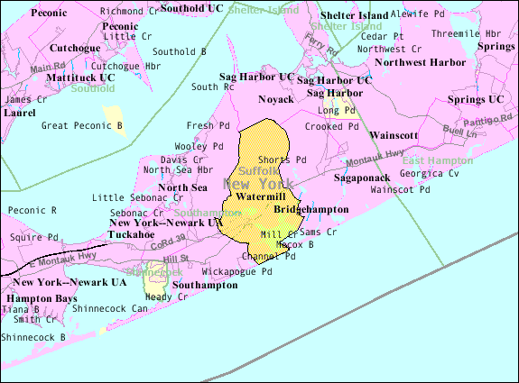 U.S. Census 2000 reference map for Watermill .